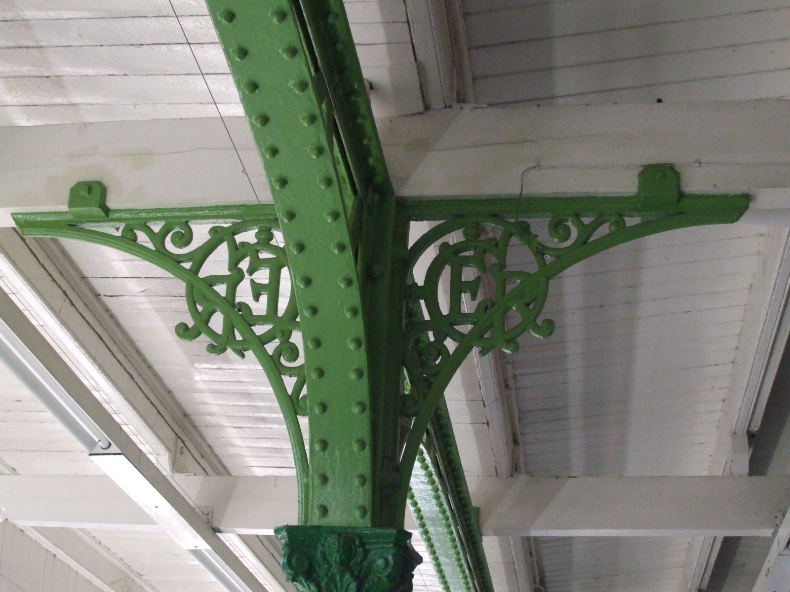 GER bracketry dating from early 20th century on Fairlop tube station